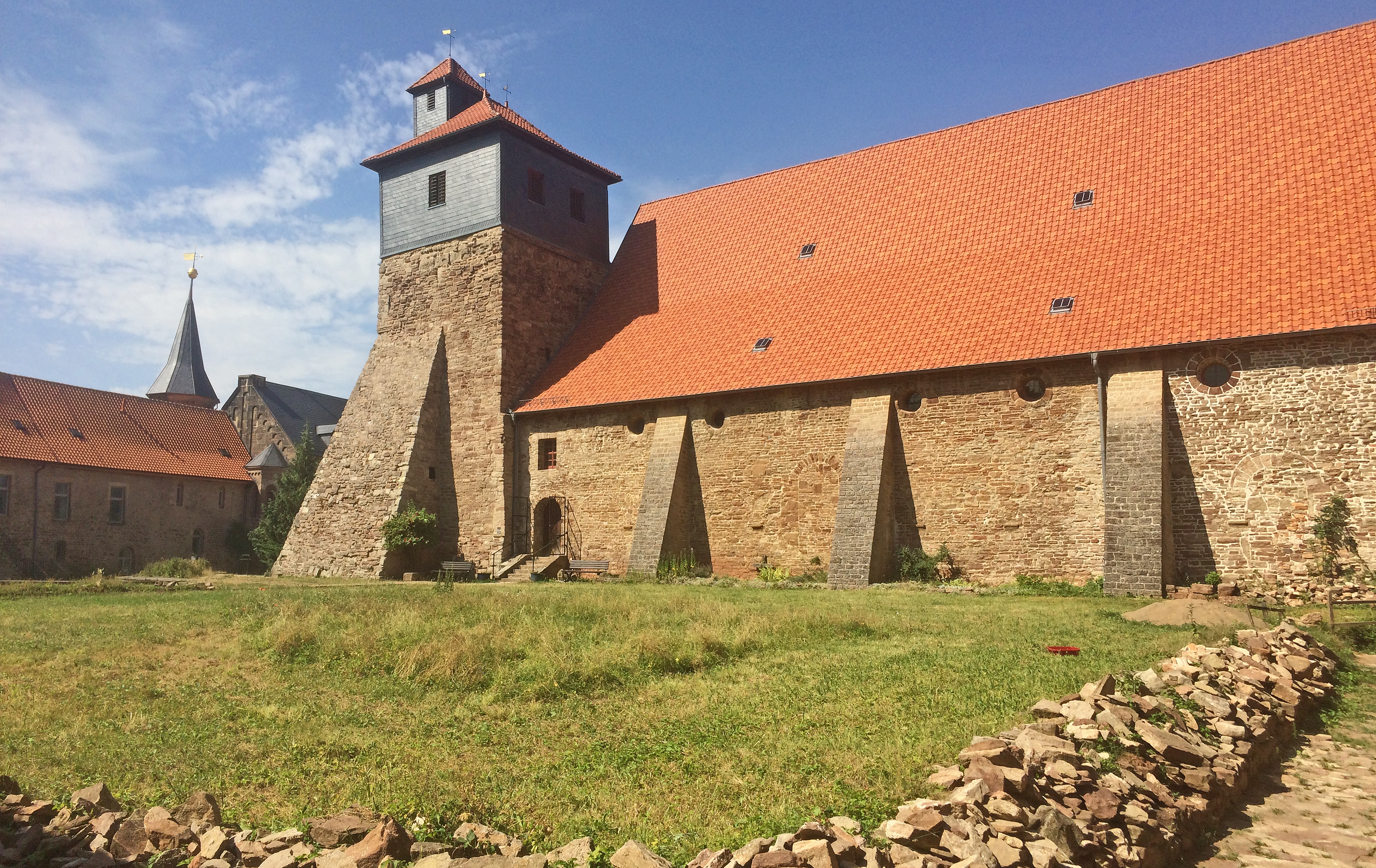 The church of Ilsenburg Abbey and a part of the castle in the background, seen from Southsoutheast.